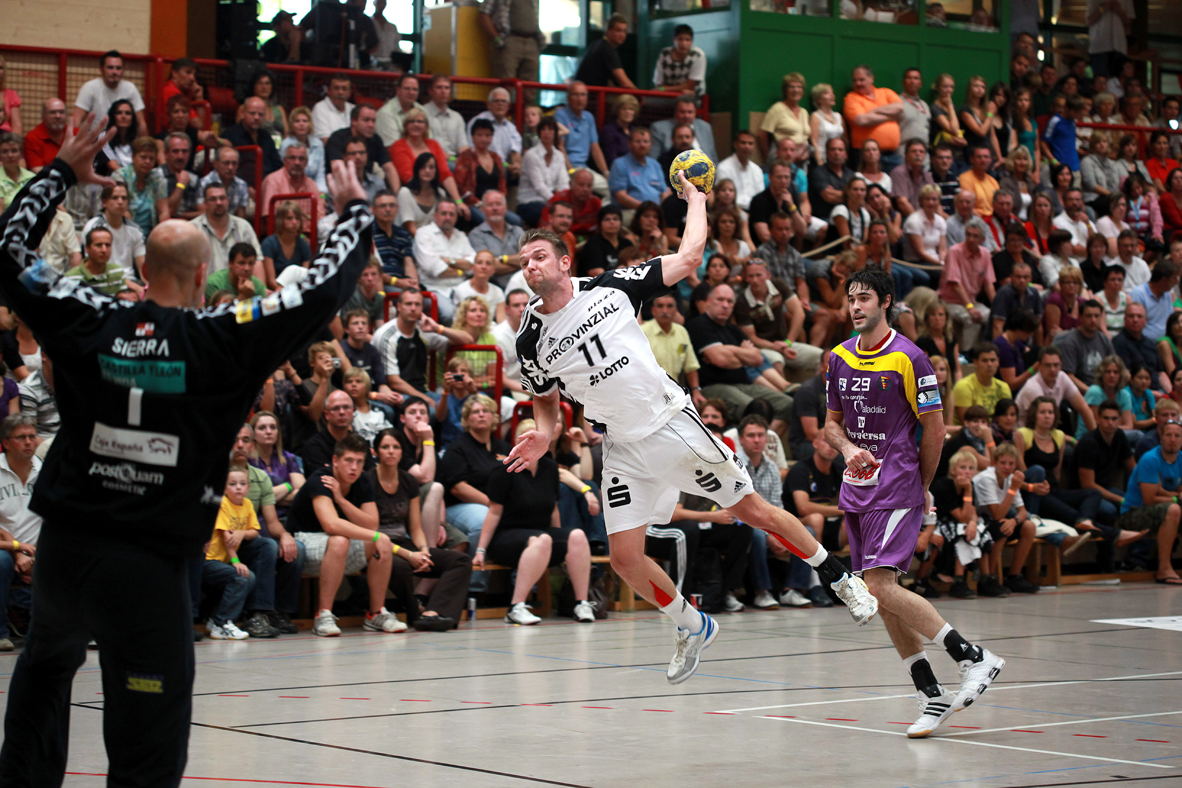 Christian Sprenger, German handball player from THW Kiel, in Ehingen (Germany), during Schlecker Cup 2009.